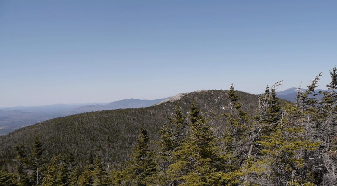 Cascade mtn from Porter mtn Used for Cascade Mountain page